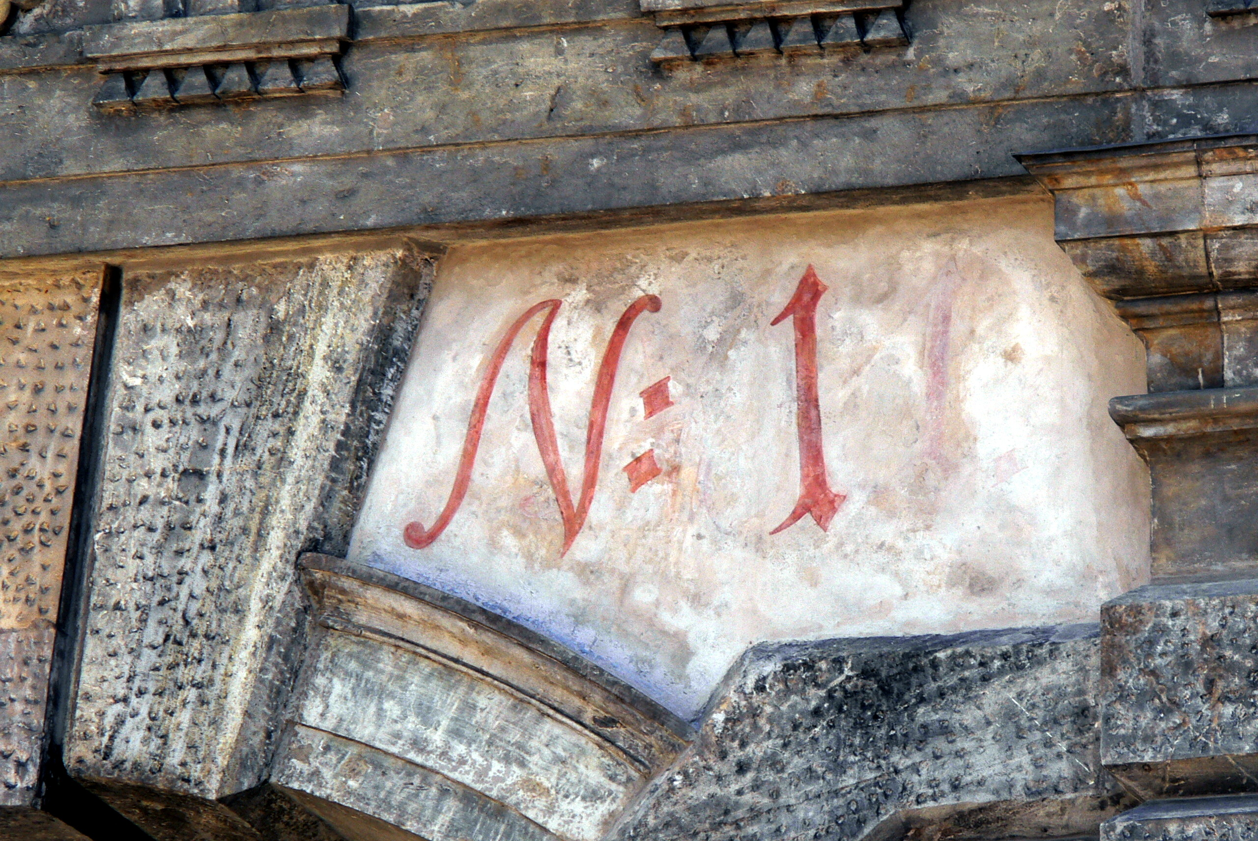 Prague castle - 1st courtyard. House number 1 at Matthias gate.